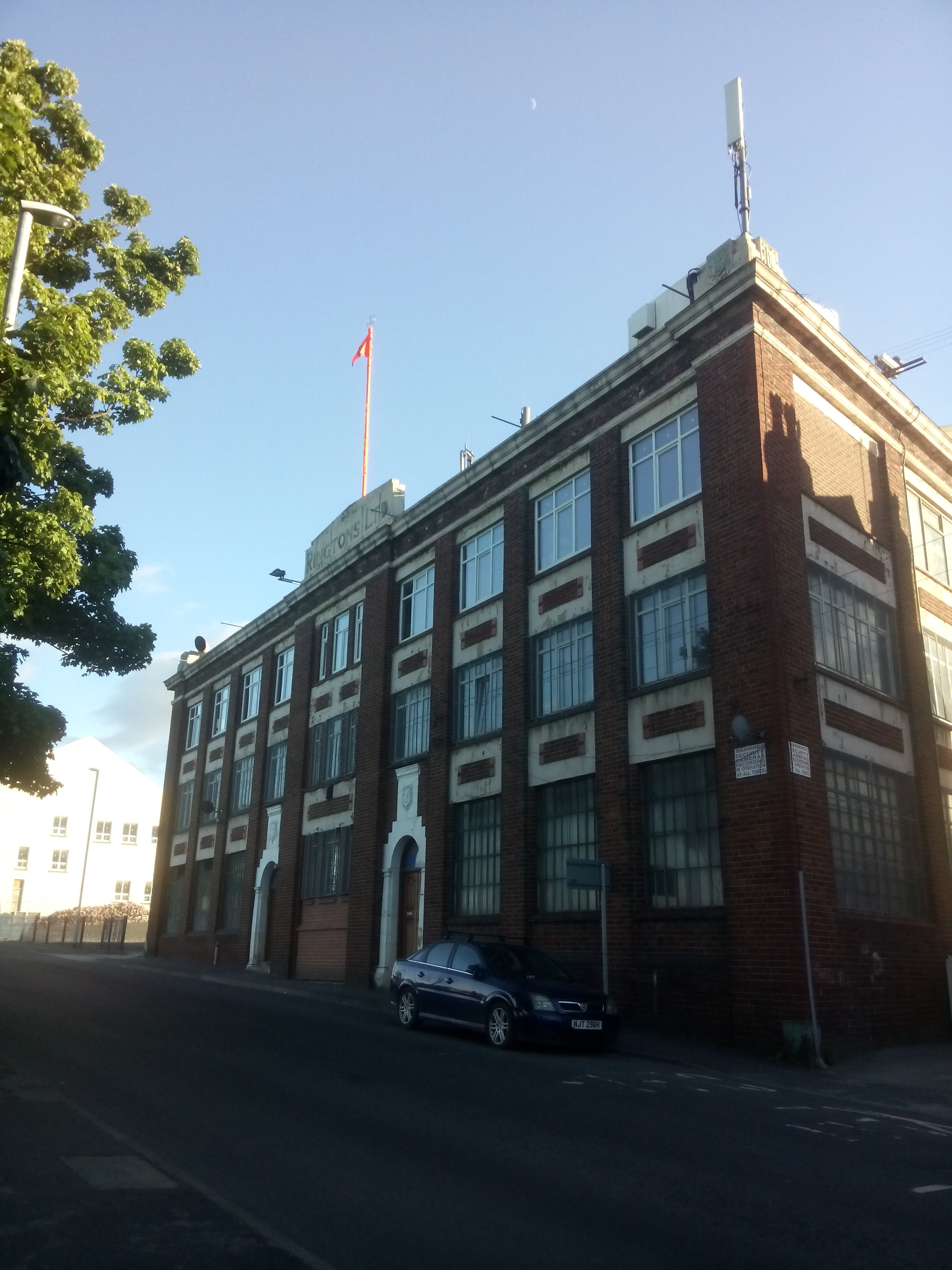 78 Ladypit Lane, Beeston, Leeds, LS11 6DP: Guru Nanak Nishkam Sewak Jatha (Leeds) UK Gurdwara; formerly Ringtons Tea Packing factory